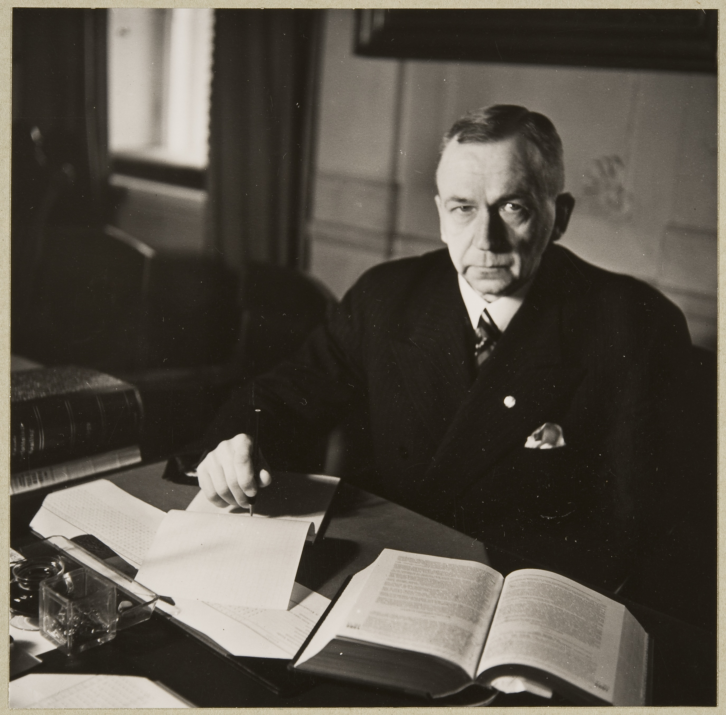 Photograph of the Finnish government minister Oskari Lehtonen (1889–1964).